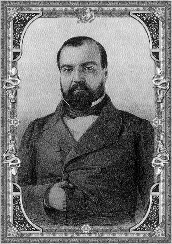 Self-portrait of José Ignacio Gregorio Comonfort, Lithograph (1870-1907).